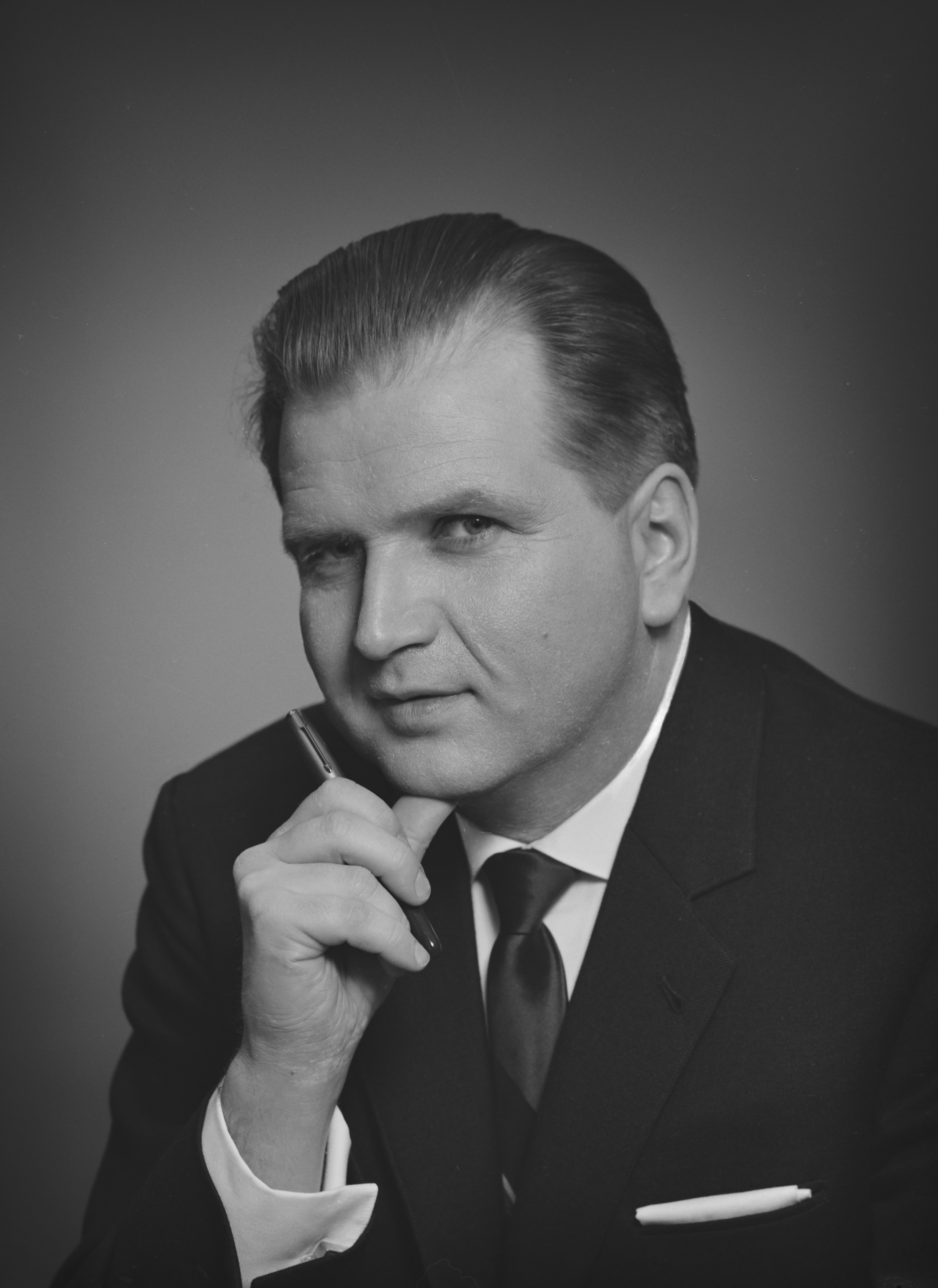 Photograph of the Finnish architect Kaj Nyström (1923–).